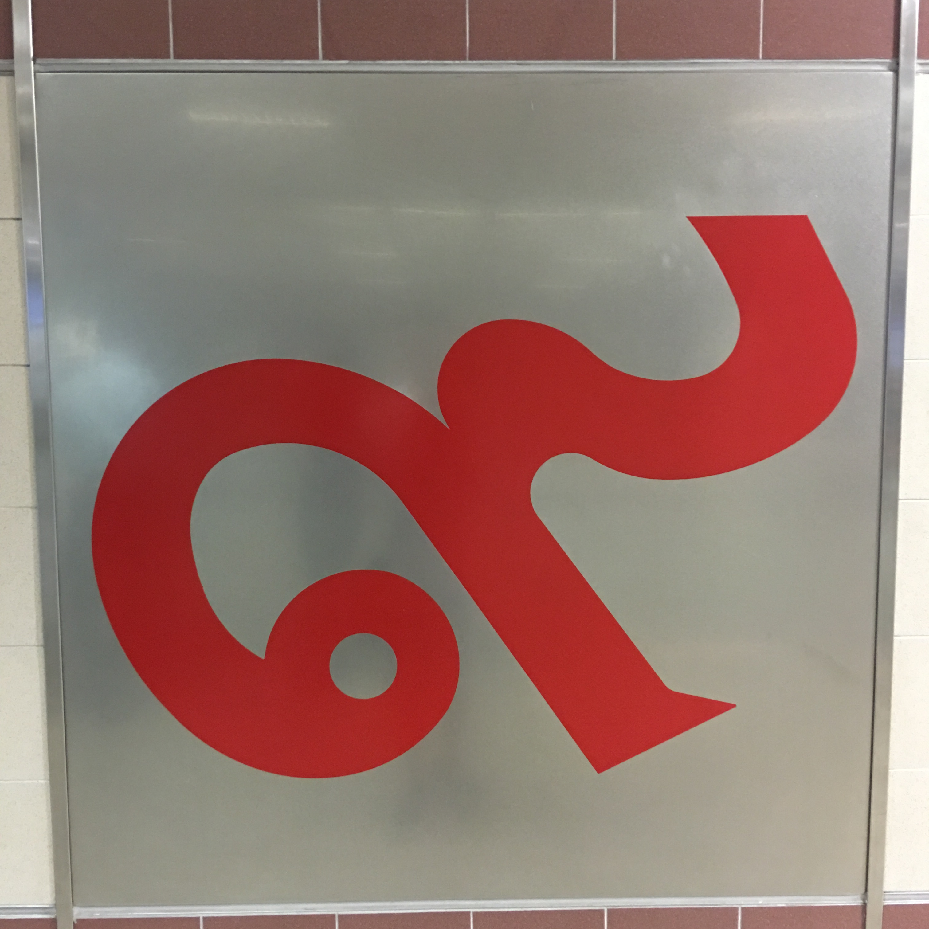 "๙" (nine) - The symbol of Phra Ram 9 Station